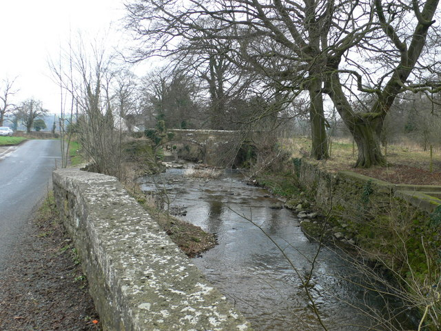 Afon Terrig, near to Llong, Flintshire/Sir y Fflint, Great Britain. Bridge over the river Terrig, near Leeswood Hall. The Terrig is a tributary of the River Alun which flows through Mold.